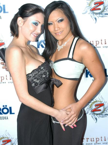 Christina Aguchi, Mindy Main at Bryn Pryor's Corruption Party, November 11 2006